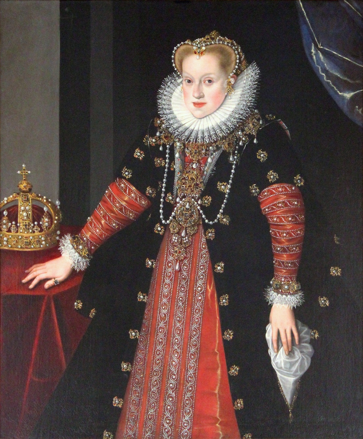 The Queen was portraited with the so-called Swedish Crown.